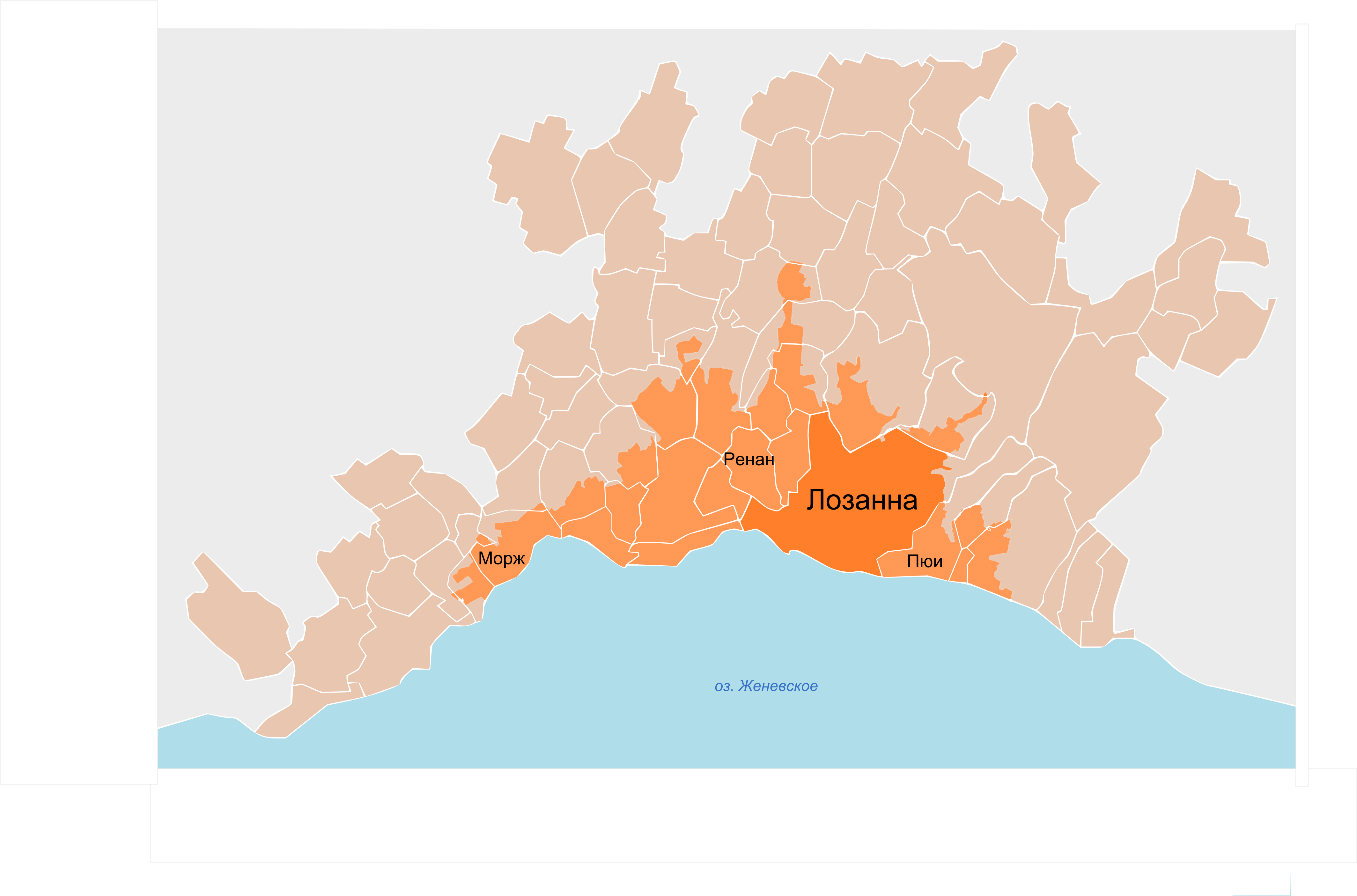 Agglomeration of Lausanne (according to the Federal Office of Statistics of Switzerland)